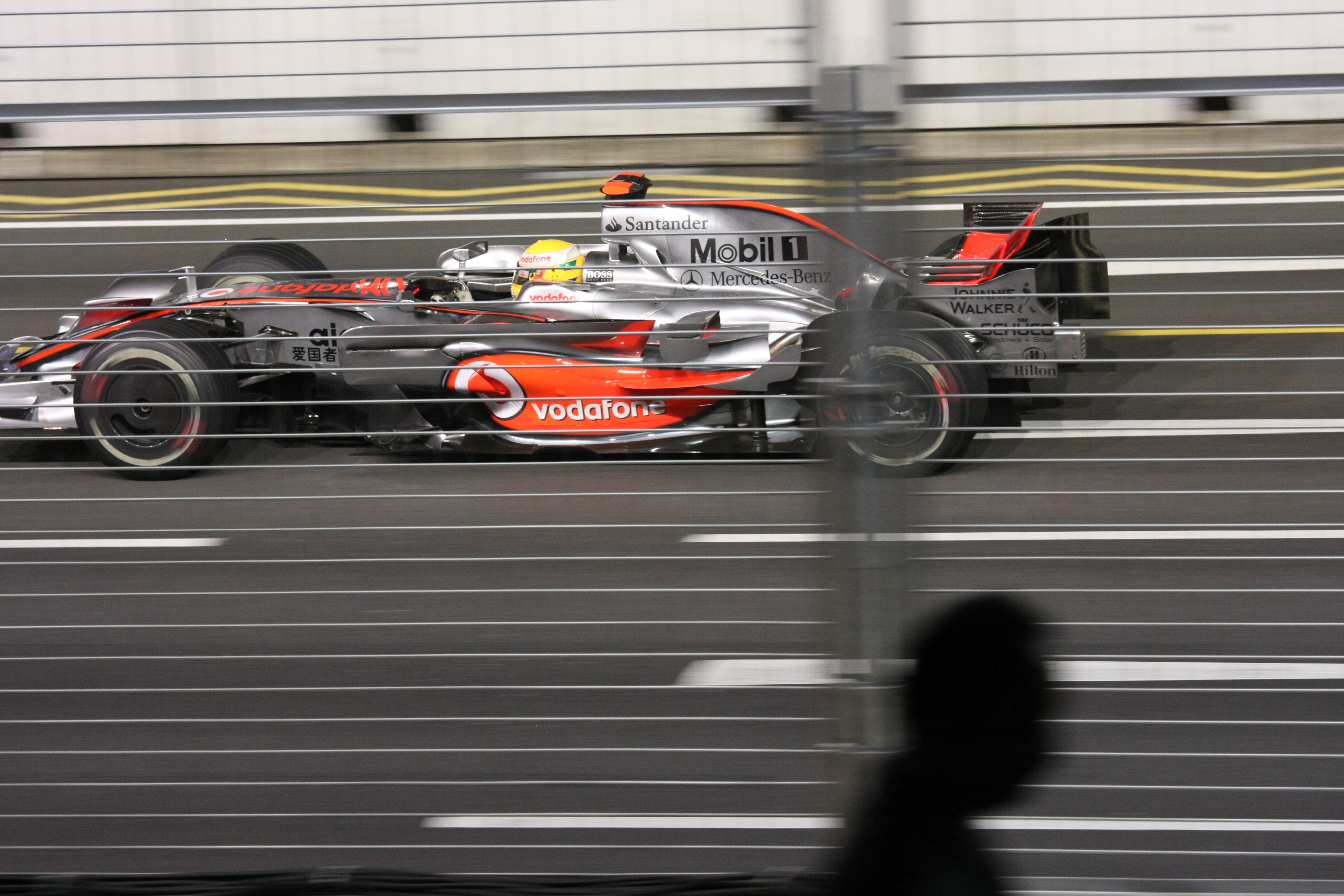 Lewis Hamilton driving for McLaren at the 2008 Singapore Grand Prix.